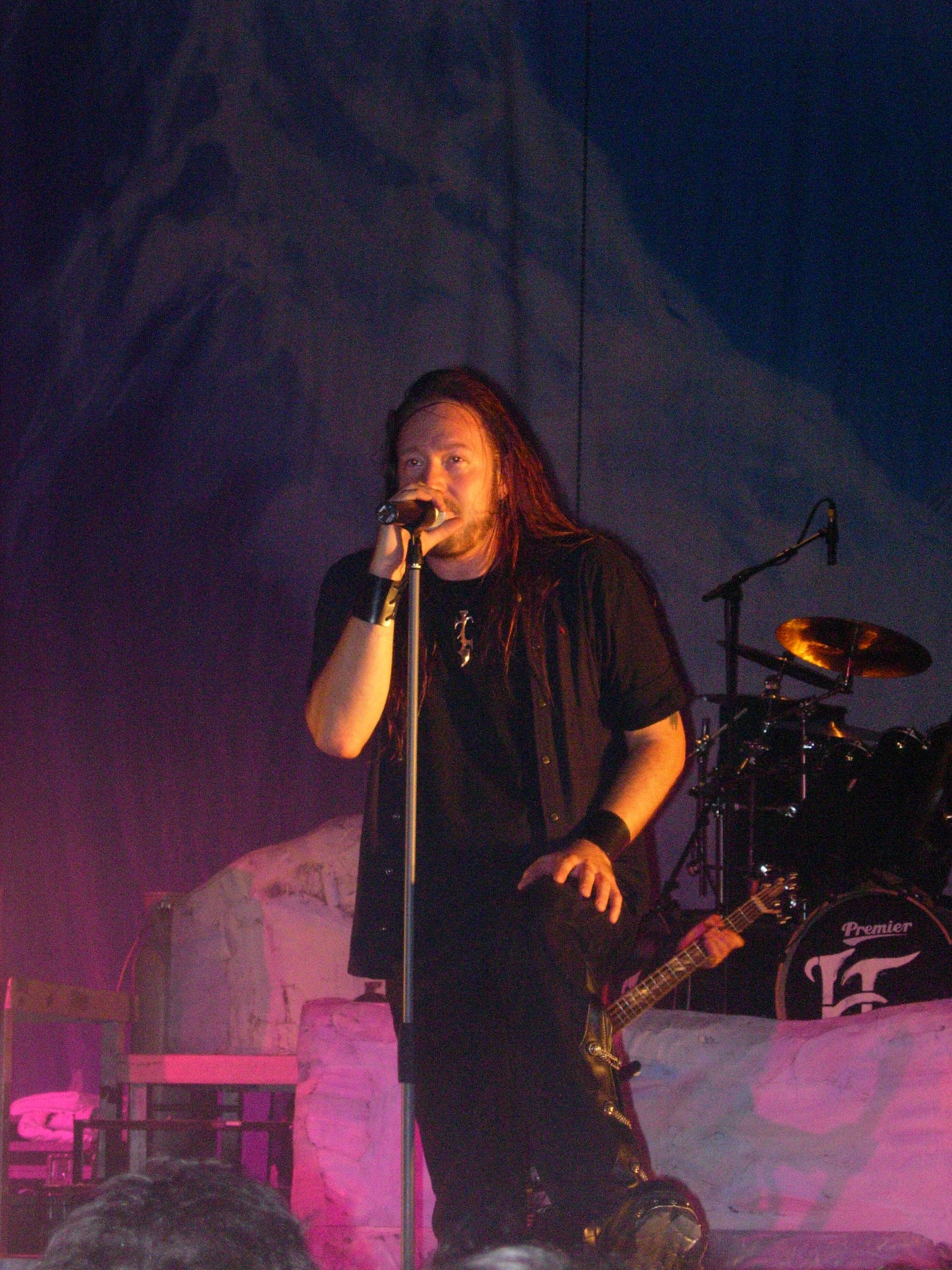 Joacim Cans, singer of HammerFall